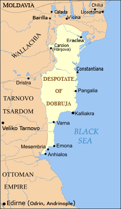 Despotate of Dobruja, since User:Anonimu rectified in accordance with Florin Constantiniu's History Atlas and User:Alex:D.